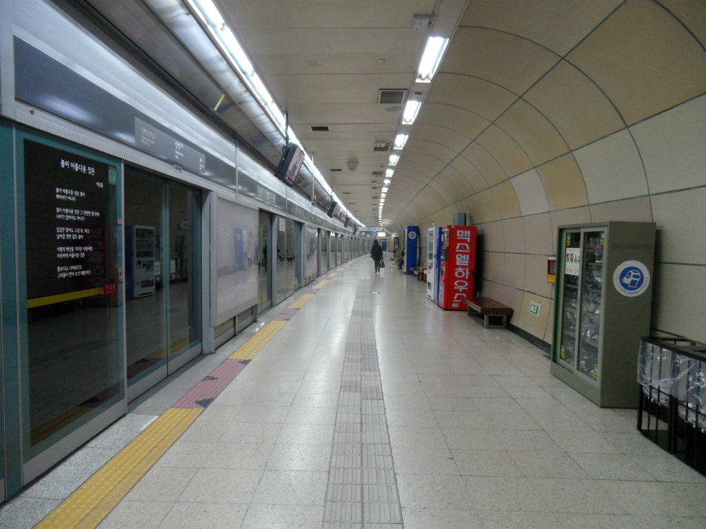 Sanseong Station (After a PSD installed)